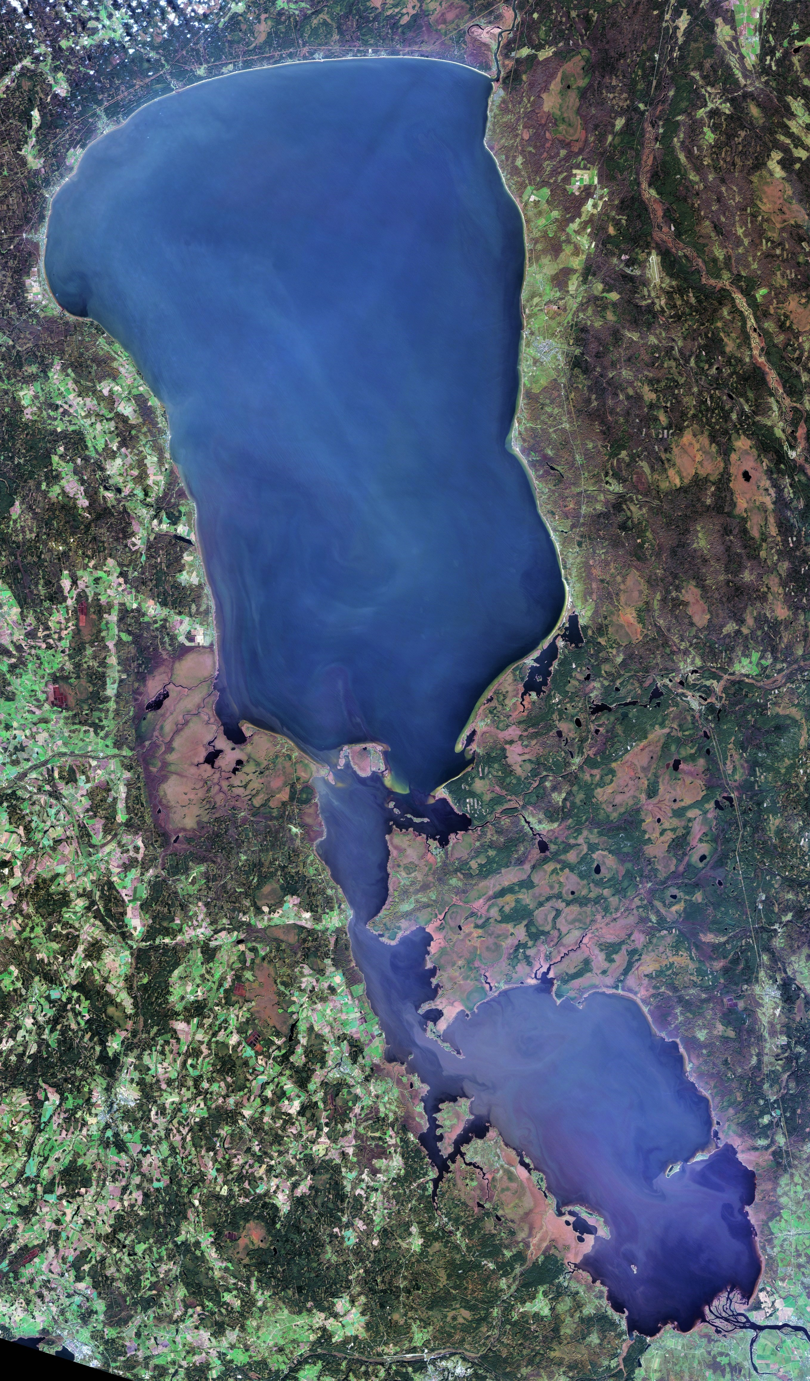 LandSat8 satellite imagery of Lake Peipus (Estonia, Russia), resolution 30m, colors near natural, LandSat scene ID = LC81860192016294LGN01, date acquired = 2016-10-20